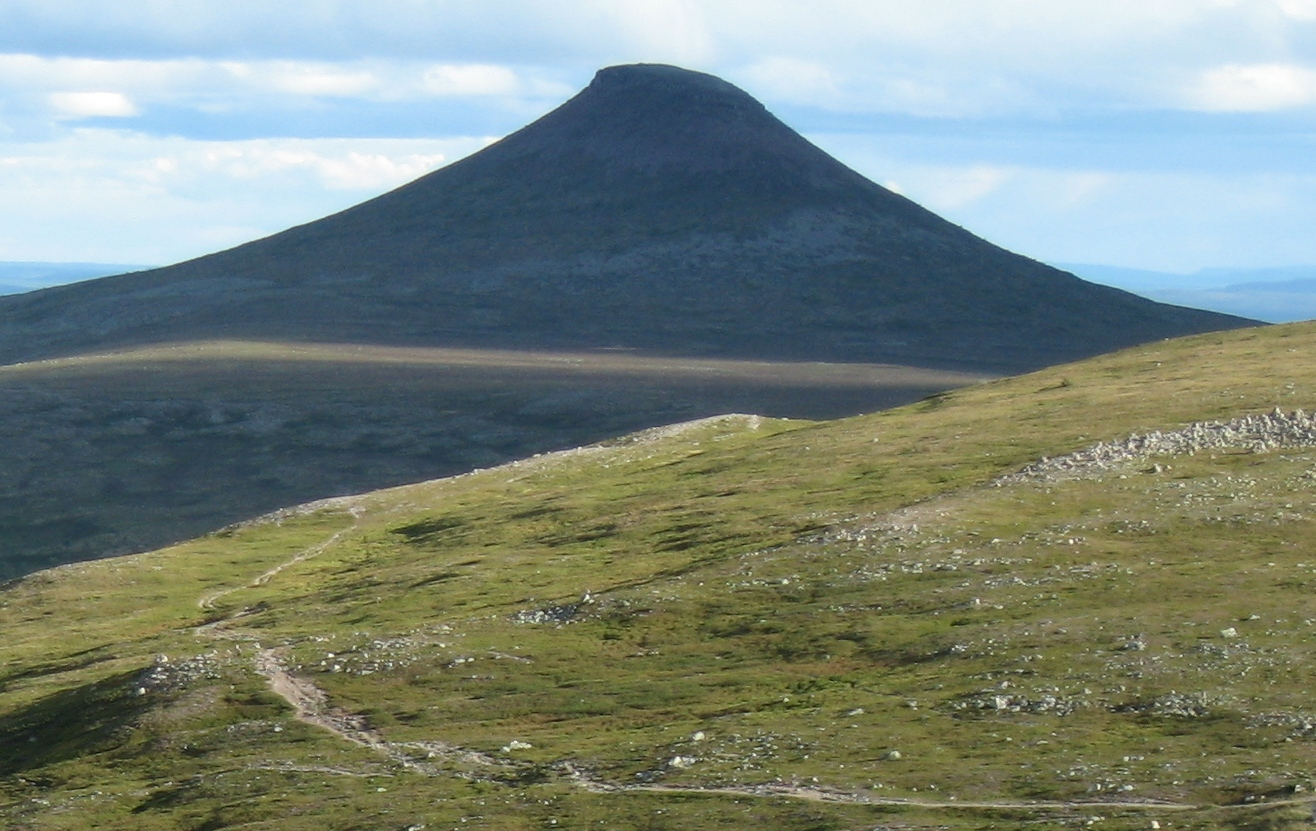 Städjan